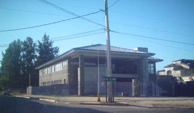 Civil and Penal Tribunal of Molina (Juzgado de Garantía y de Letras de Molina)